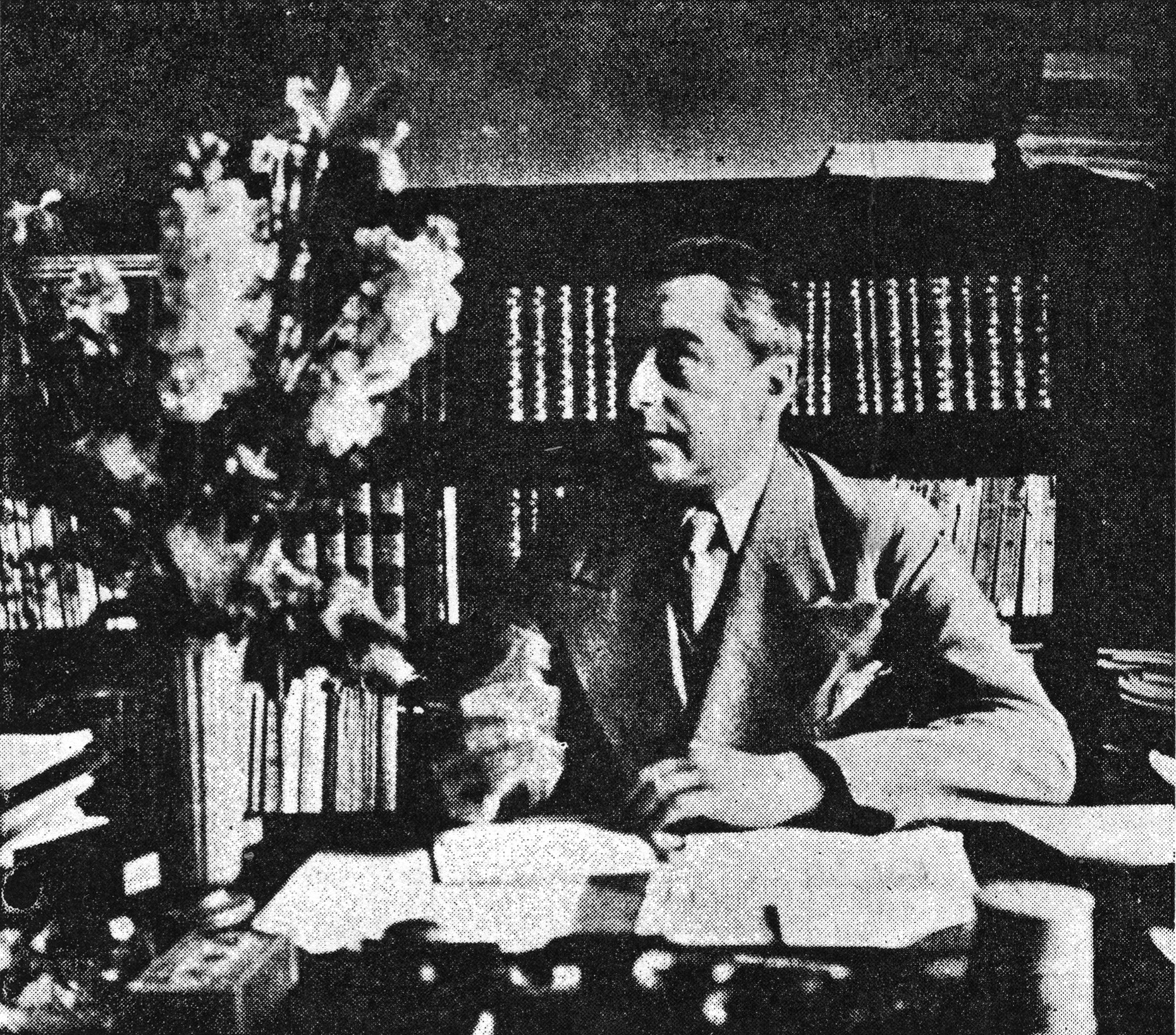 Swedish author Hjalmar Gullberg.